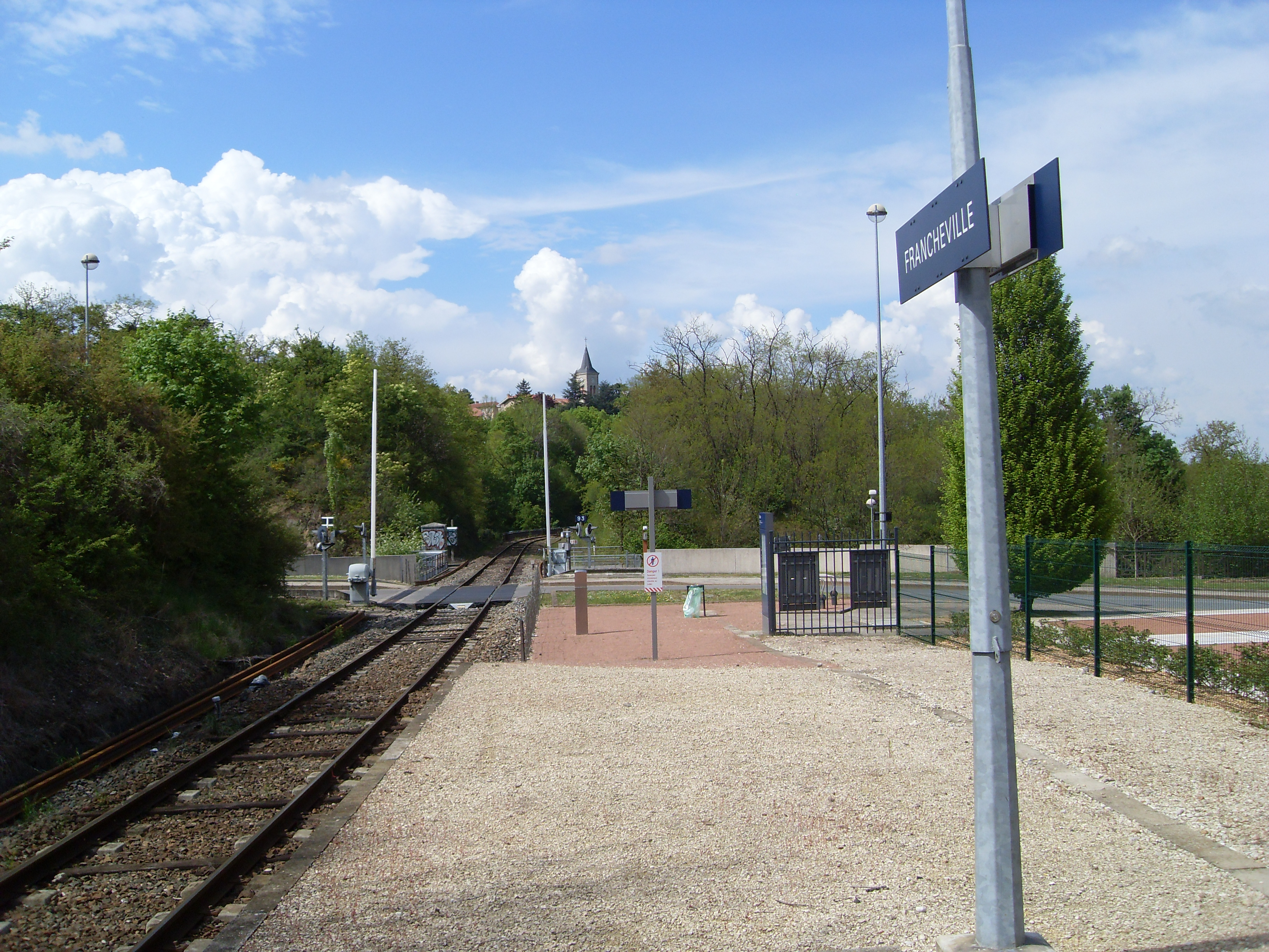 The train station of Francheville